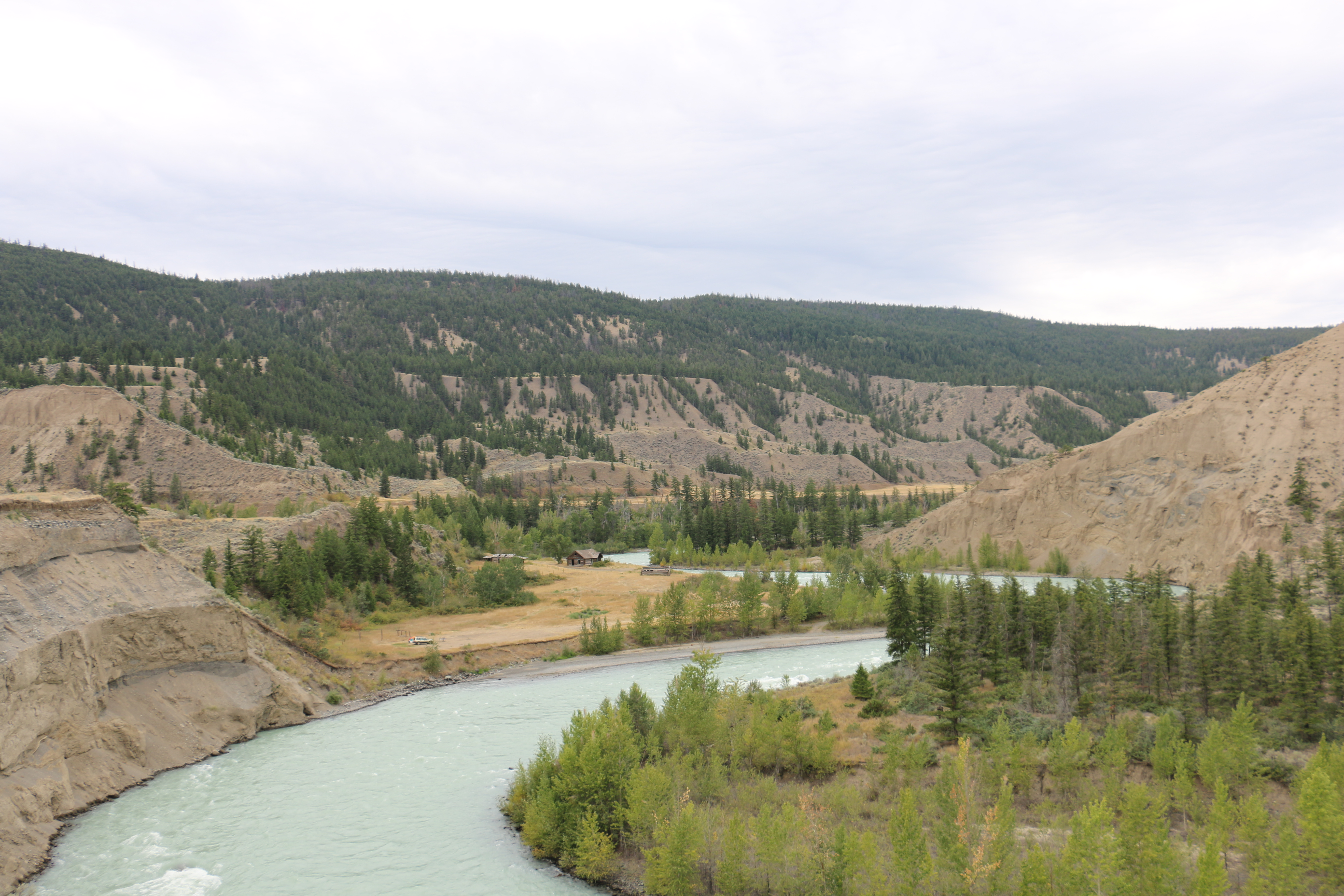 The Chilcotin River at Farwell Canyon, near the river's confluence with the Fraser River, British Columbia, Canada.